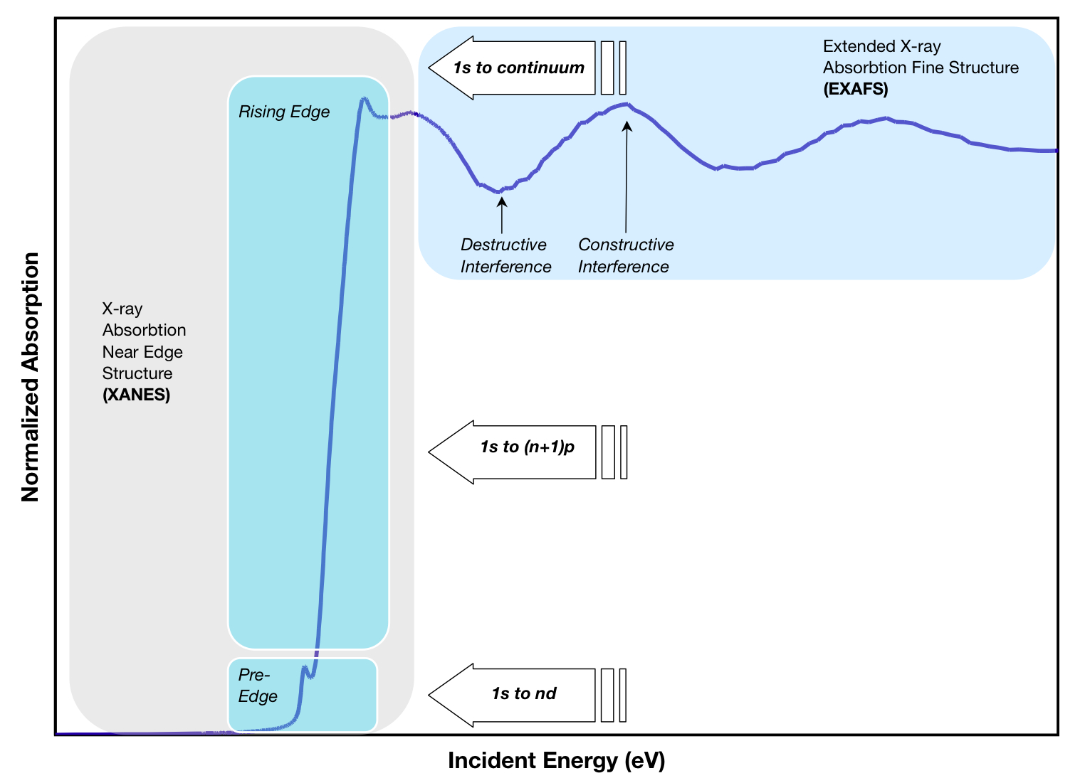 Example XAS spectrum showing the three major data regions. Author: M. Blank